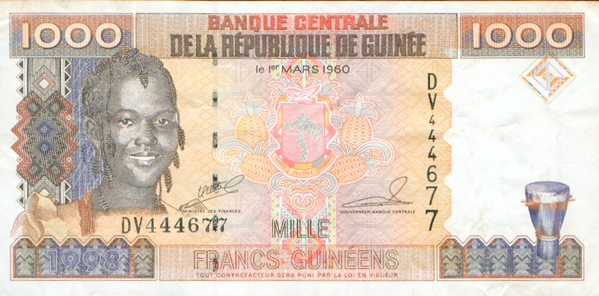 banknote of Guinea. GNF 1000. issued 1998